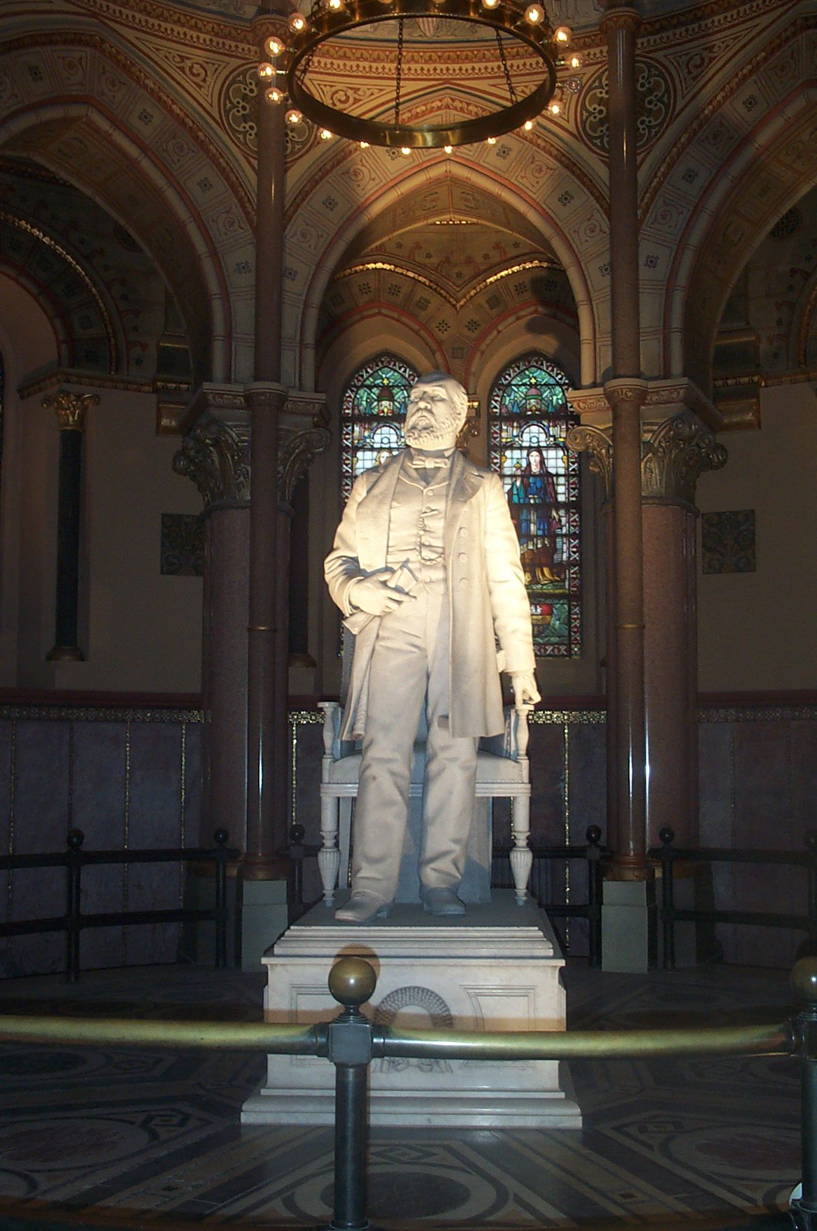 James Garfield Monument, Cleveland Ohio. The statue was added after the monument was completed and over the objections of the architect. It's made from marble.